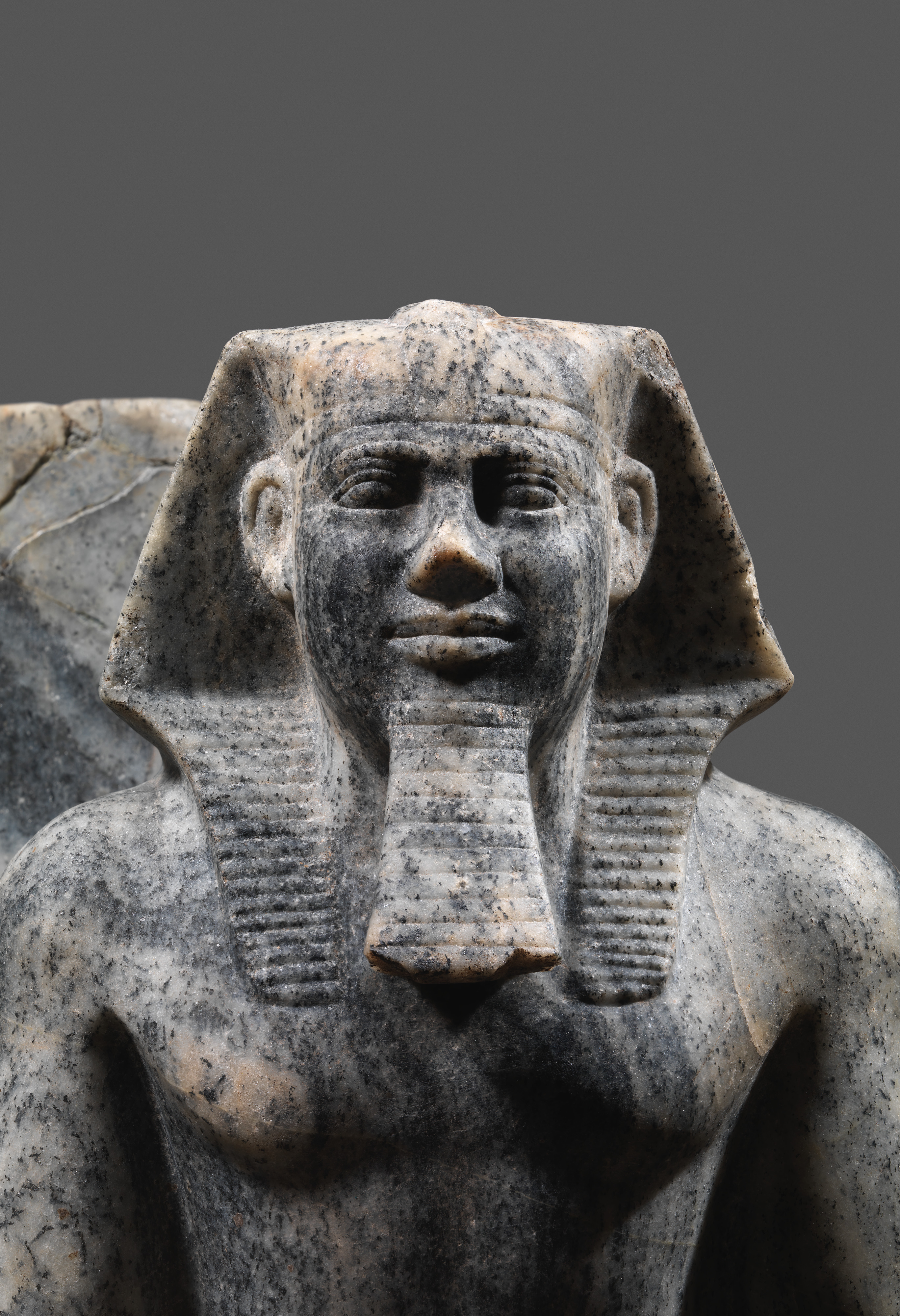 Statue group, King Sahure, Nome God